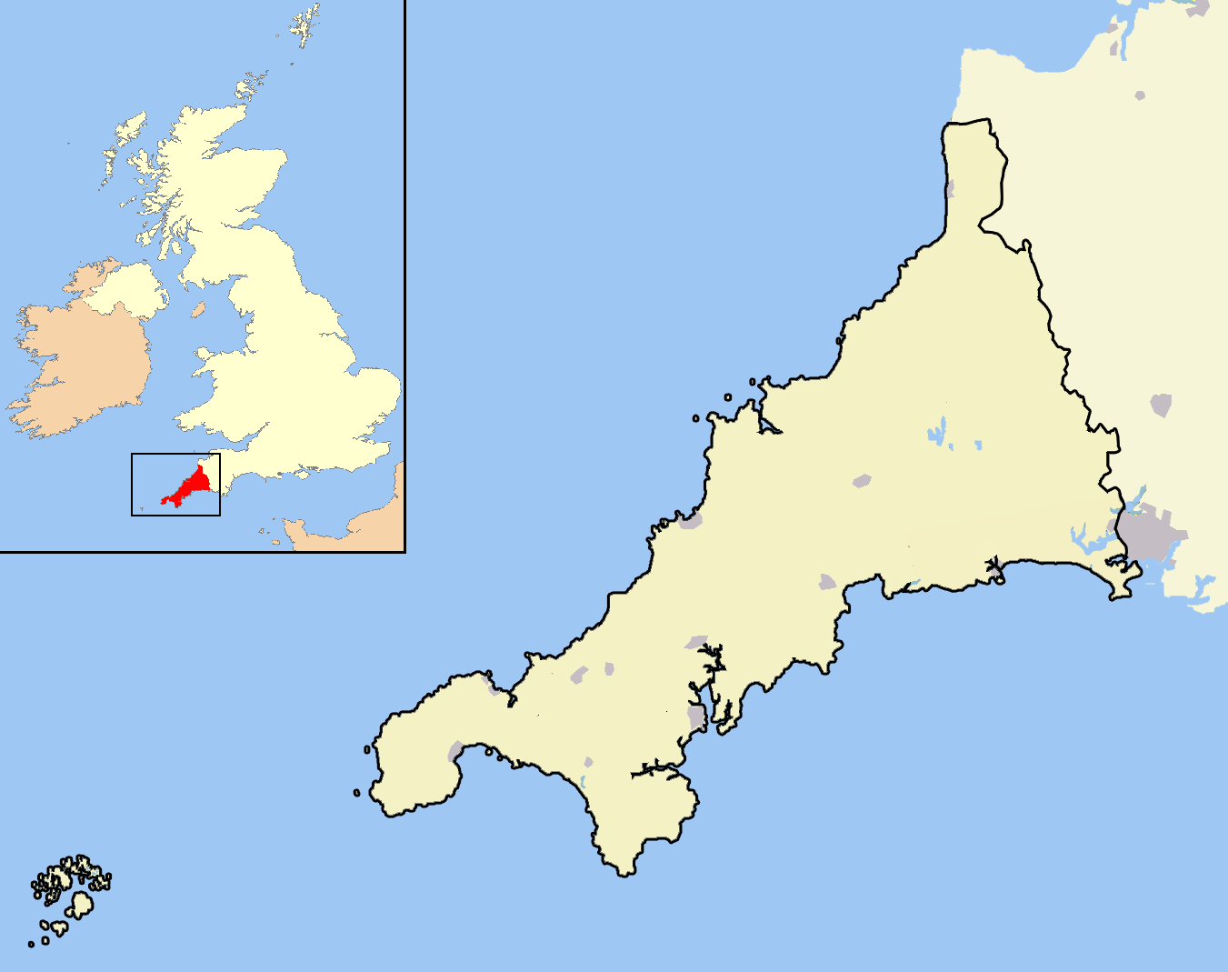 A map of the county of Cornwall, England, United Kingdom, showing the post-2009 district boundaries.